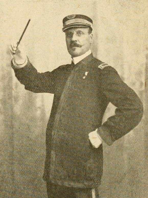 Oscar Ringwall (1845-1916), Swedish-american clarinetist and conductor